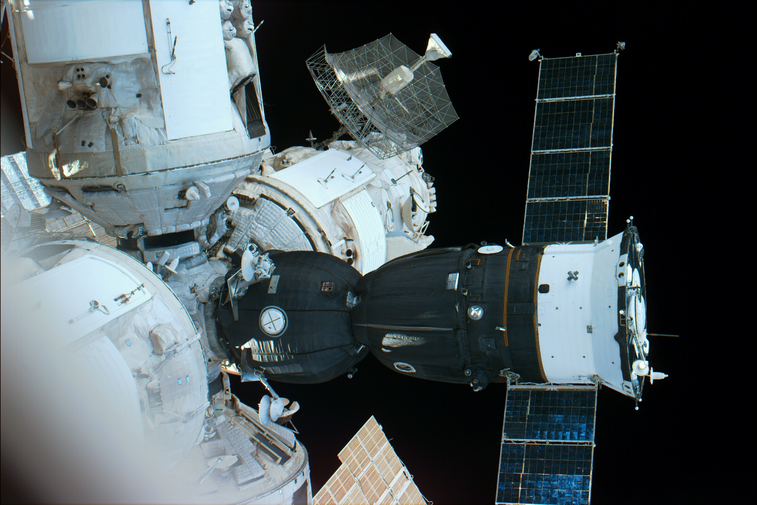 A view from the Space Shuttle Atlantis showing Soyuz TM-24 docked to the Russian space station Mir.